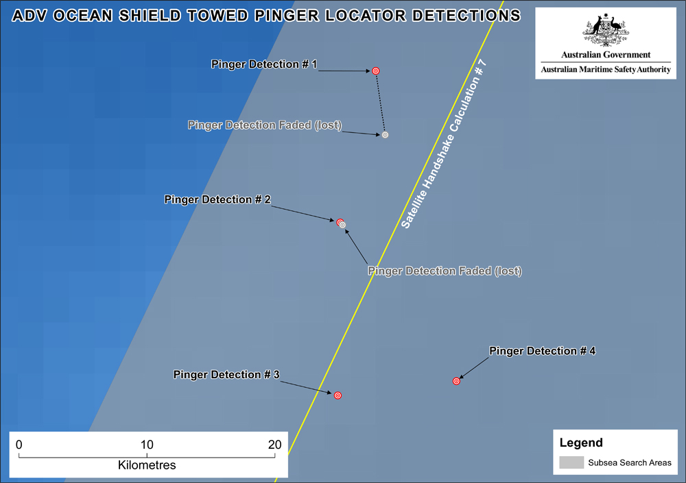 ADV Ocean Shield towed Pinger Locator Detections